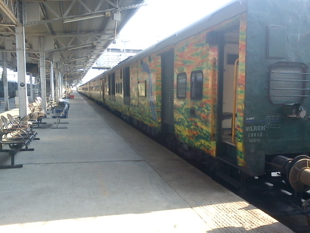 DURONTO PARKED IN 2ND PLATFORM